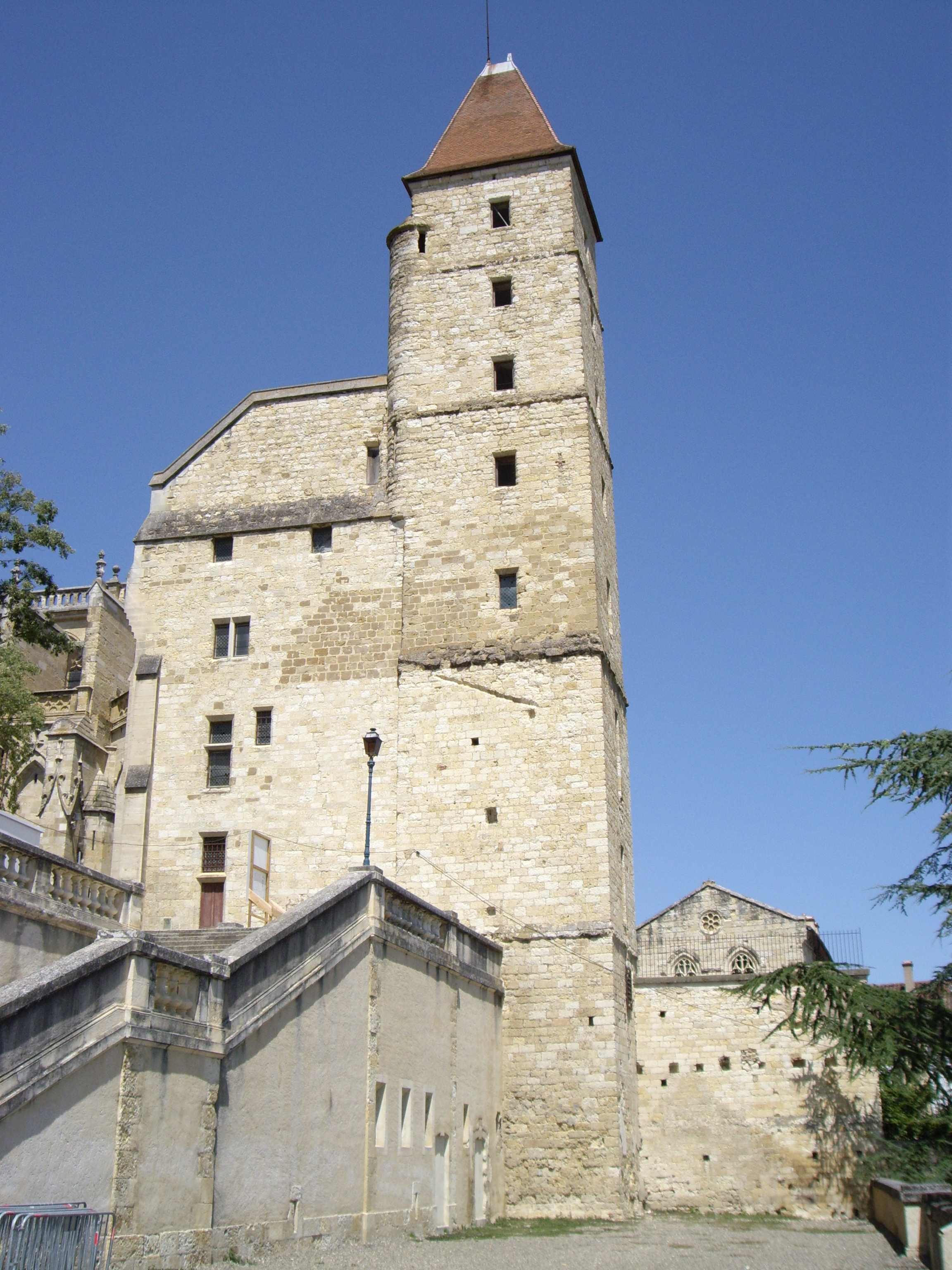 Tower of Armagnac, Auch, Gers, France